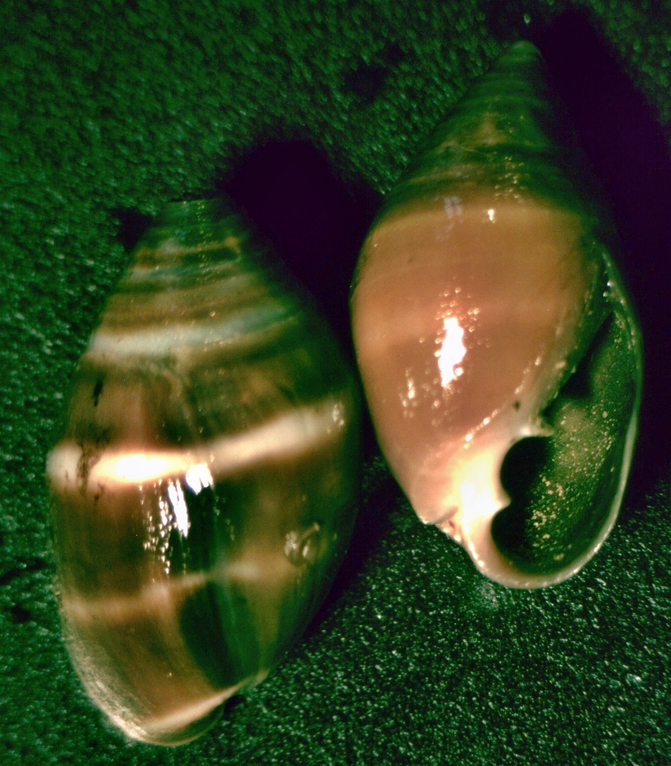 Ophicardelus sulcatus Adams, 1855, a snail from the family Ellobiidae; South Australia